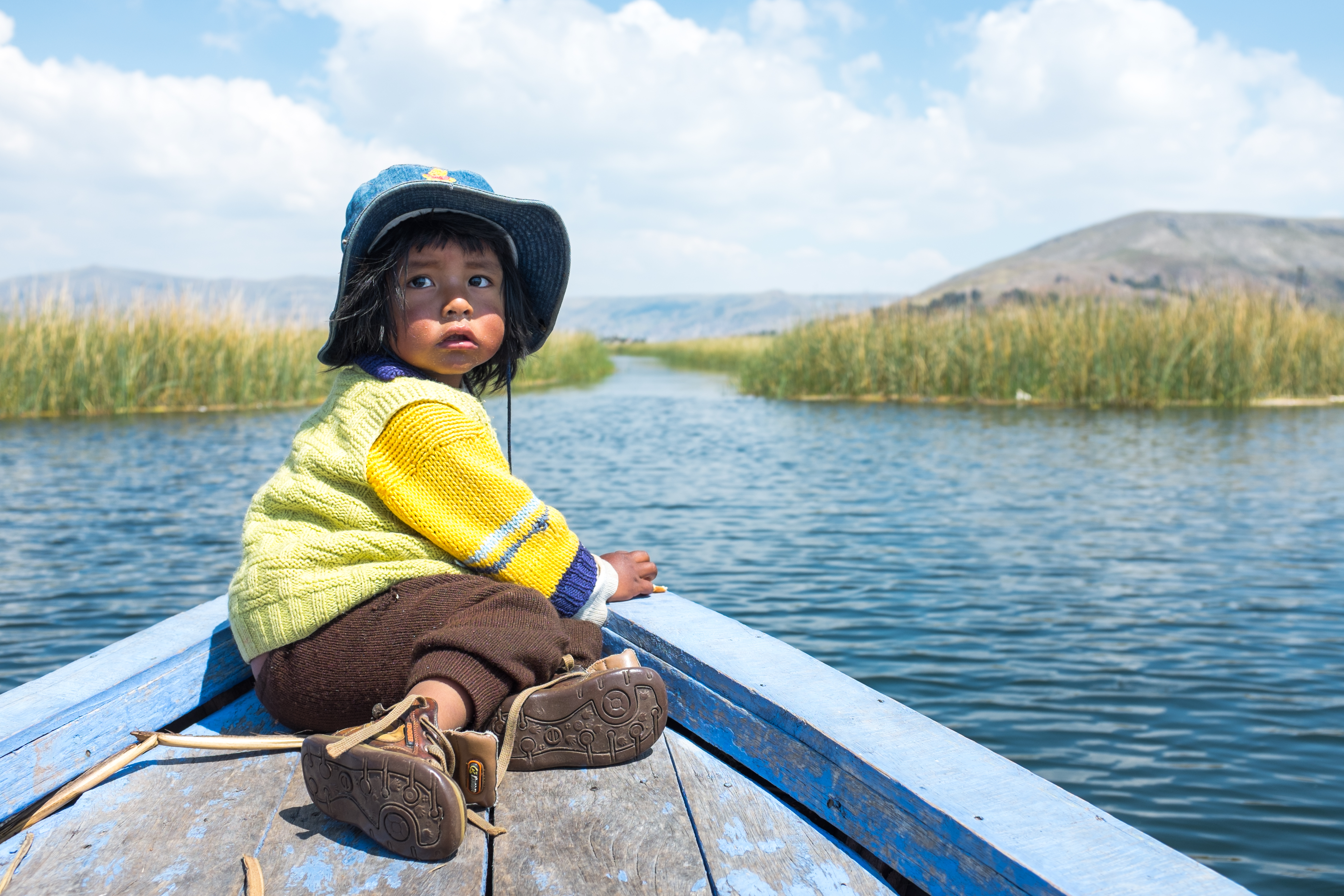 An Uro boy being transported on a boat across the Lake Titicaca.